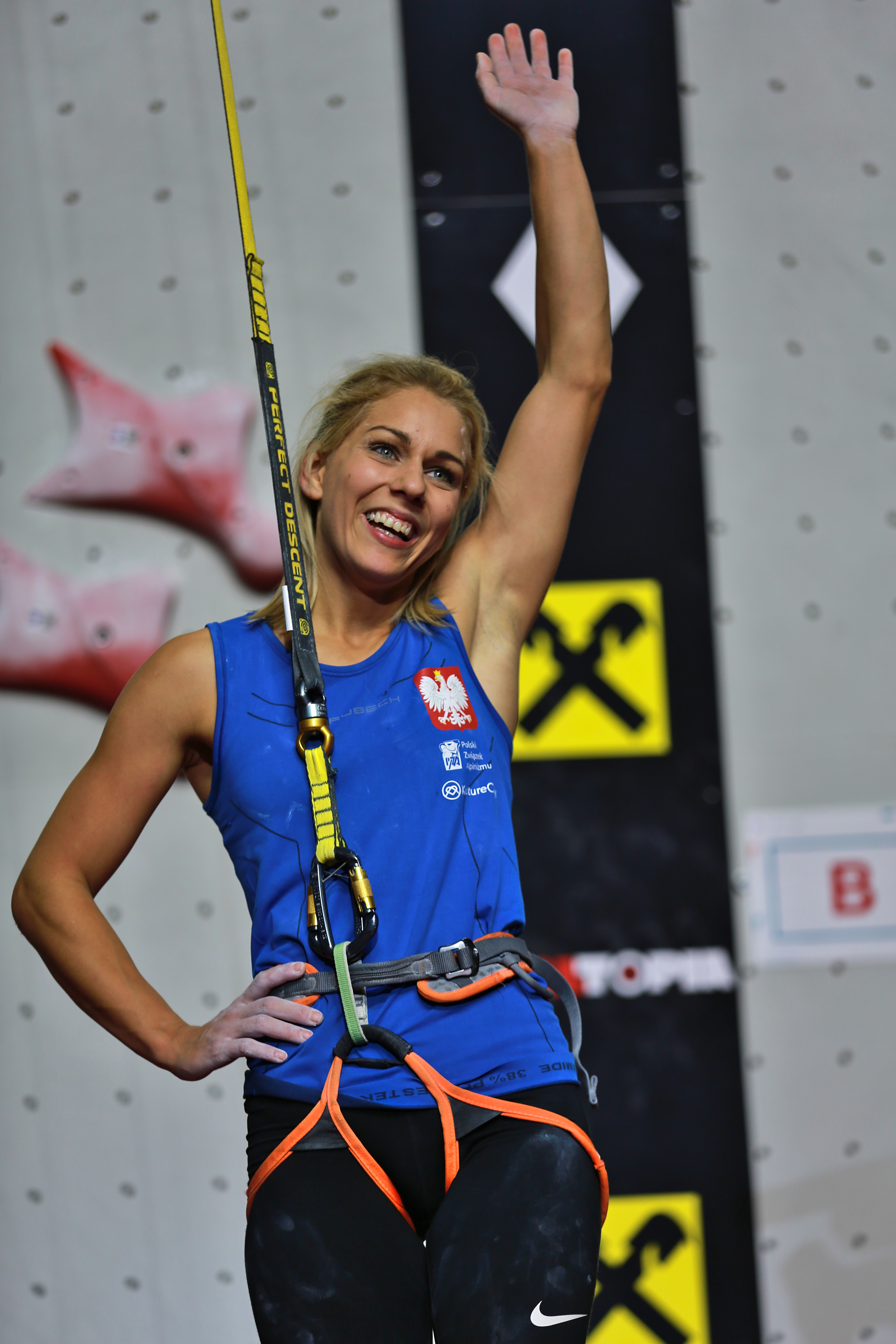 Climbing World Championships 2018 Speed Final Rudzinska